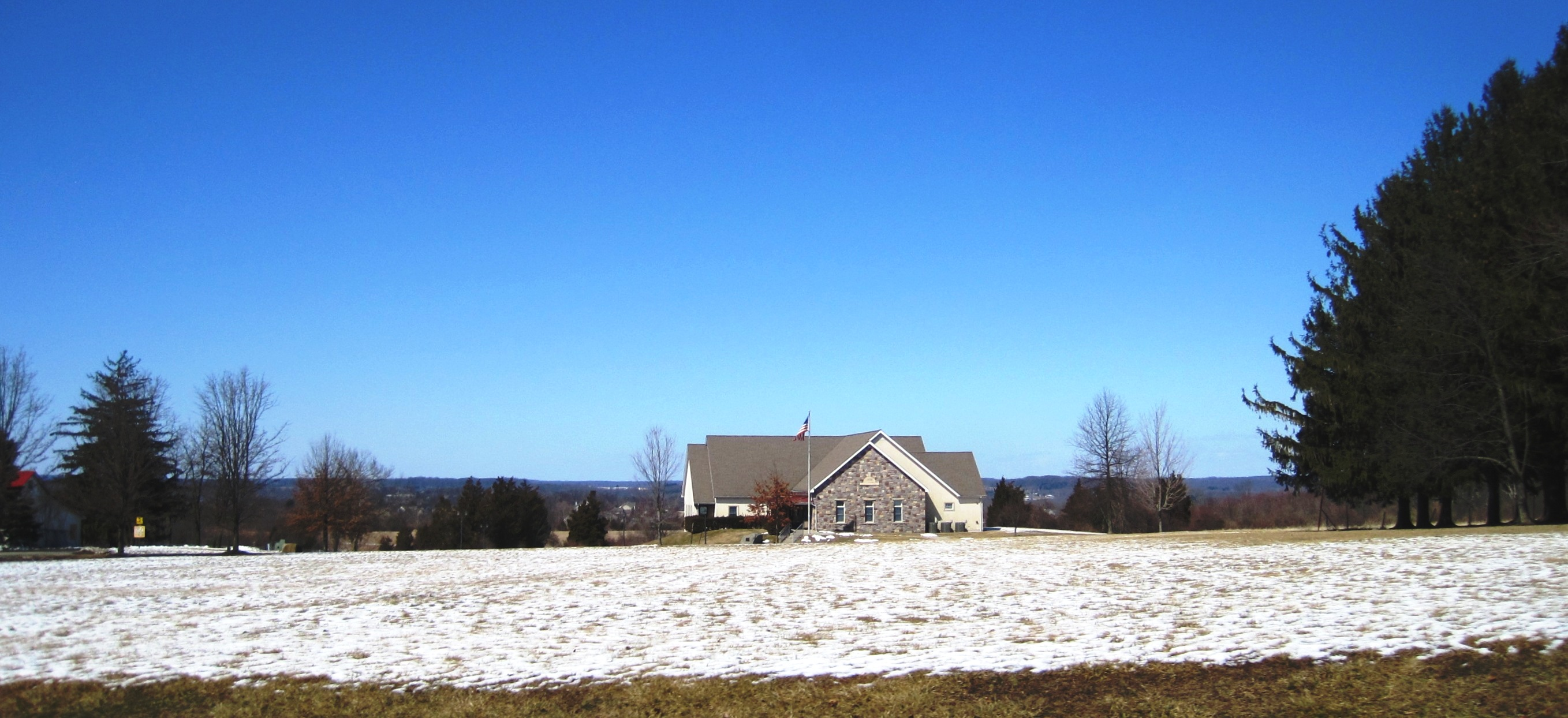 Photograph of the West Amwell Township Municipal Building and Court at 150 Rocktown-Lambertville Road, West Amwell Township, New Jersey. Color and brightness enhanced for clarity.